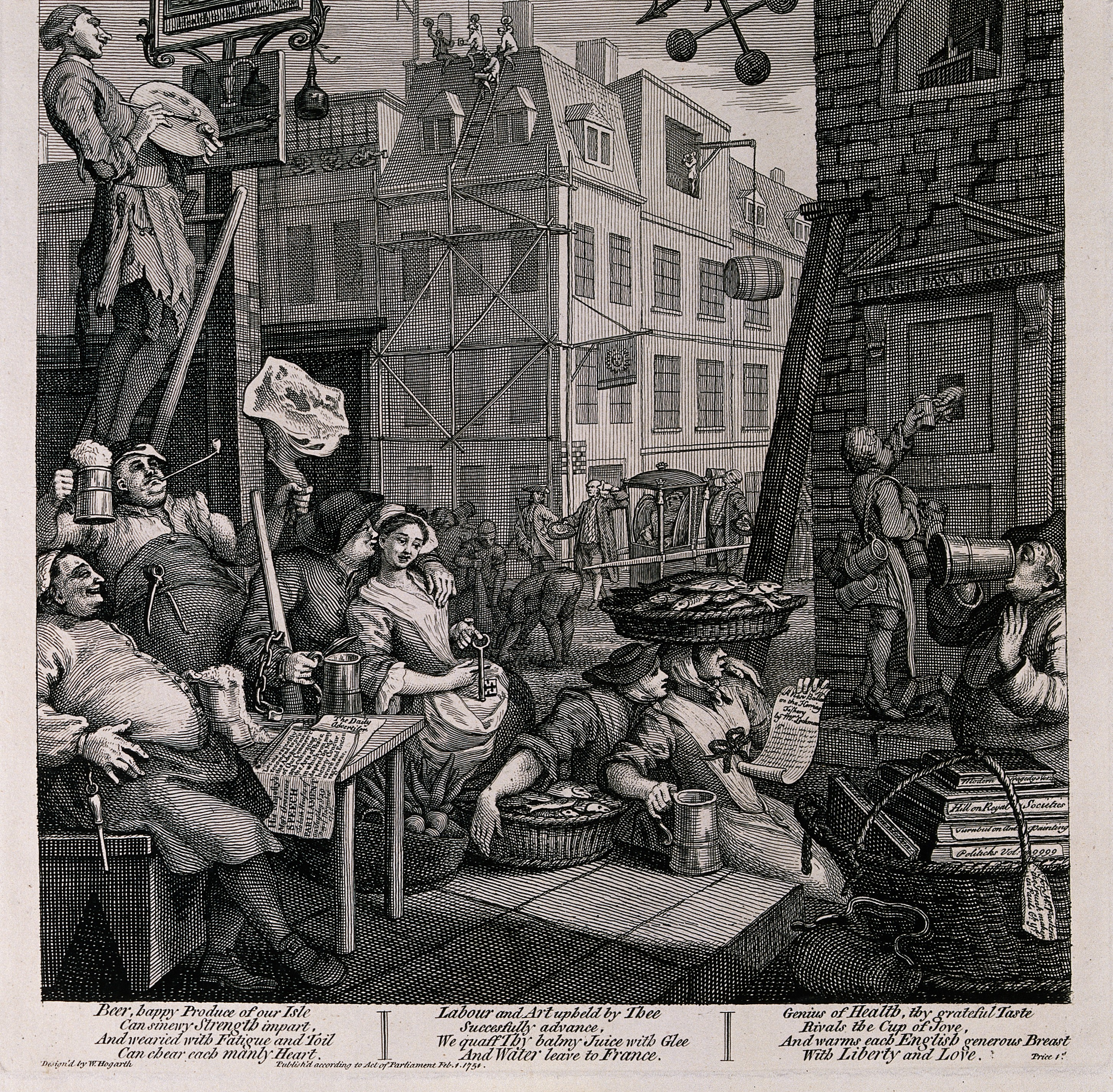 A busy street corner with traders stopping for a tankard of beer and an artist painting a pub sign. Engraving, c. 1751, Tom Cook after W. Hogarth. Iconographic Collections Keywords: William Hogarth